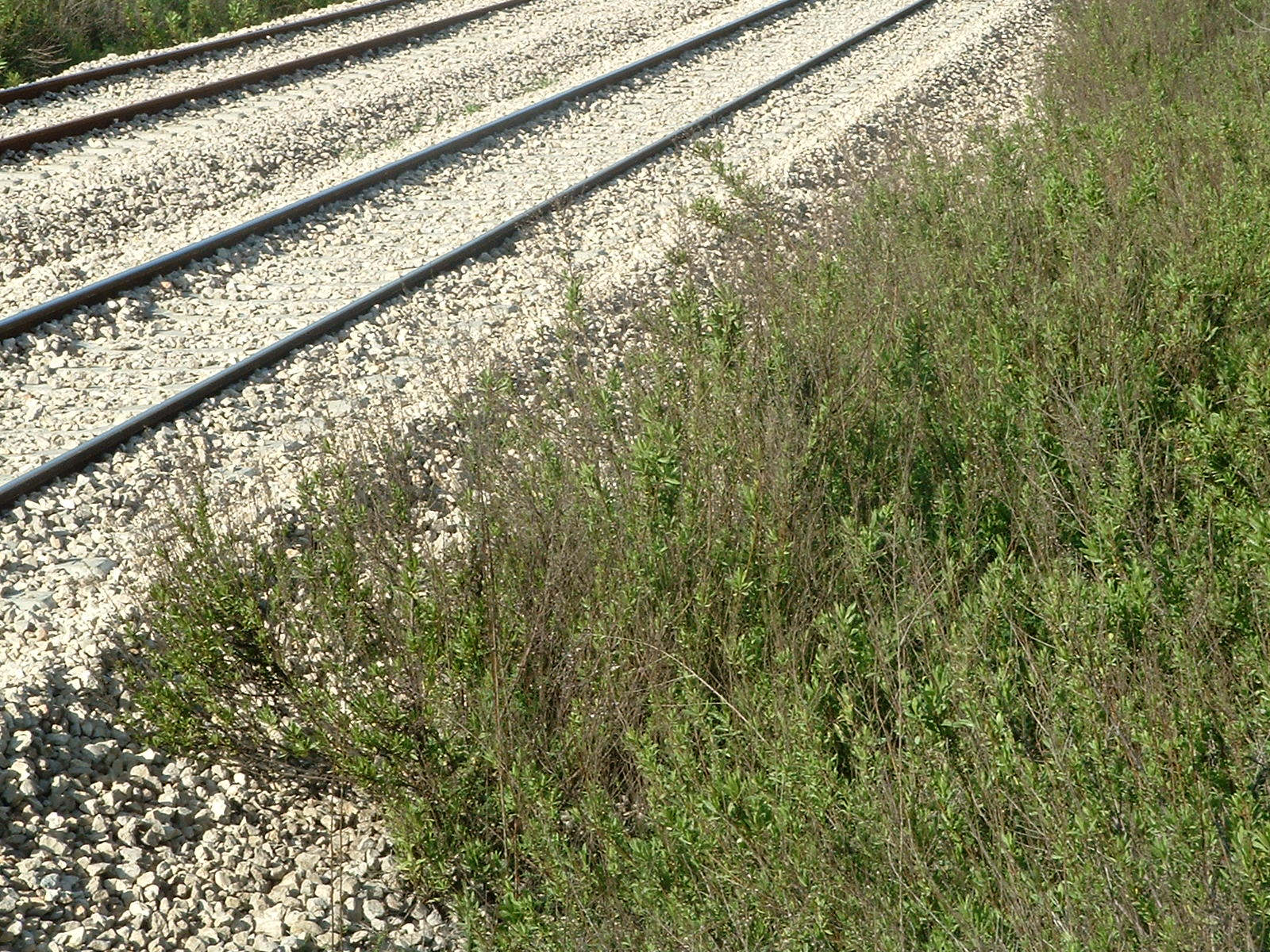 A ruderal community consisting solely of Dittrichia viscosa, growing on the railway-side gravel, next to the Sgula train station, Petach-Tikva, Israel.